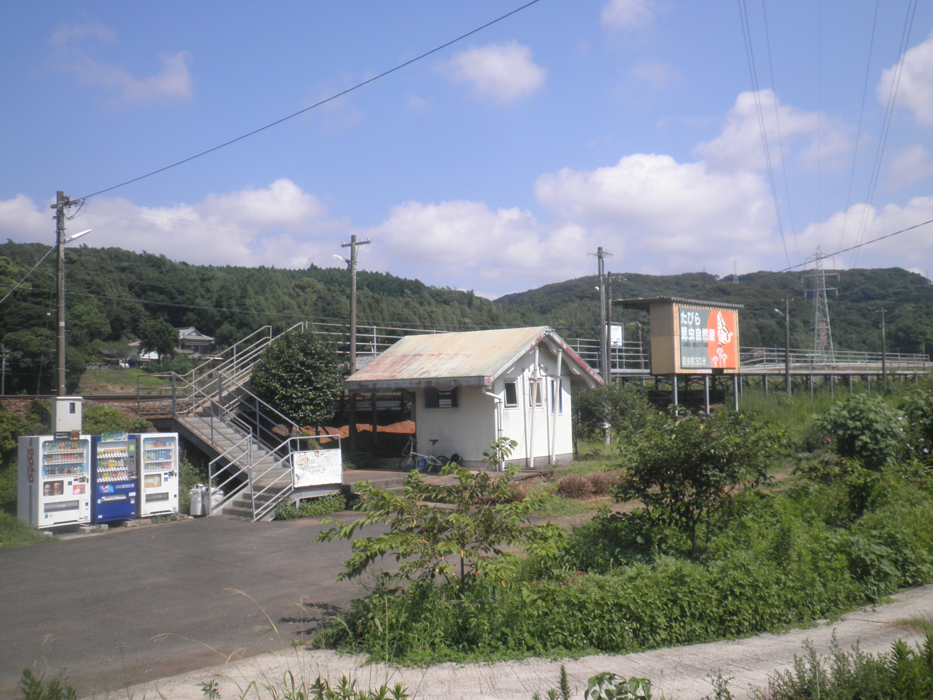 Matsuura Railway Nishi-Tabira Station in Hirado City, Nagasaki Prefecture, Japan